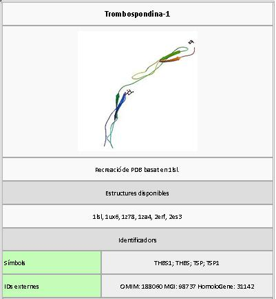 Structure